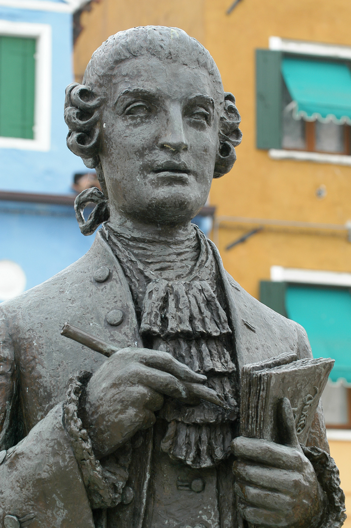 Statue of Galuppi in Burano